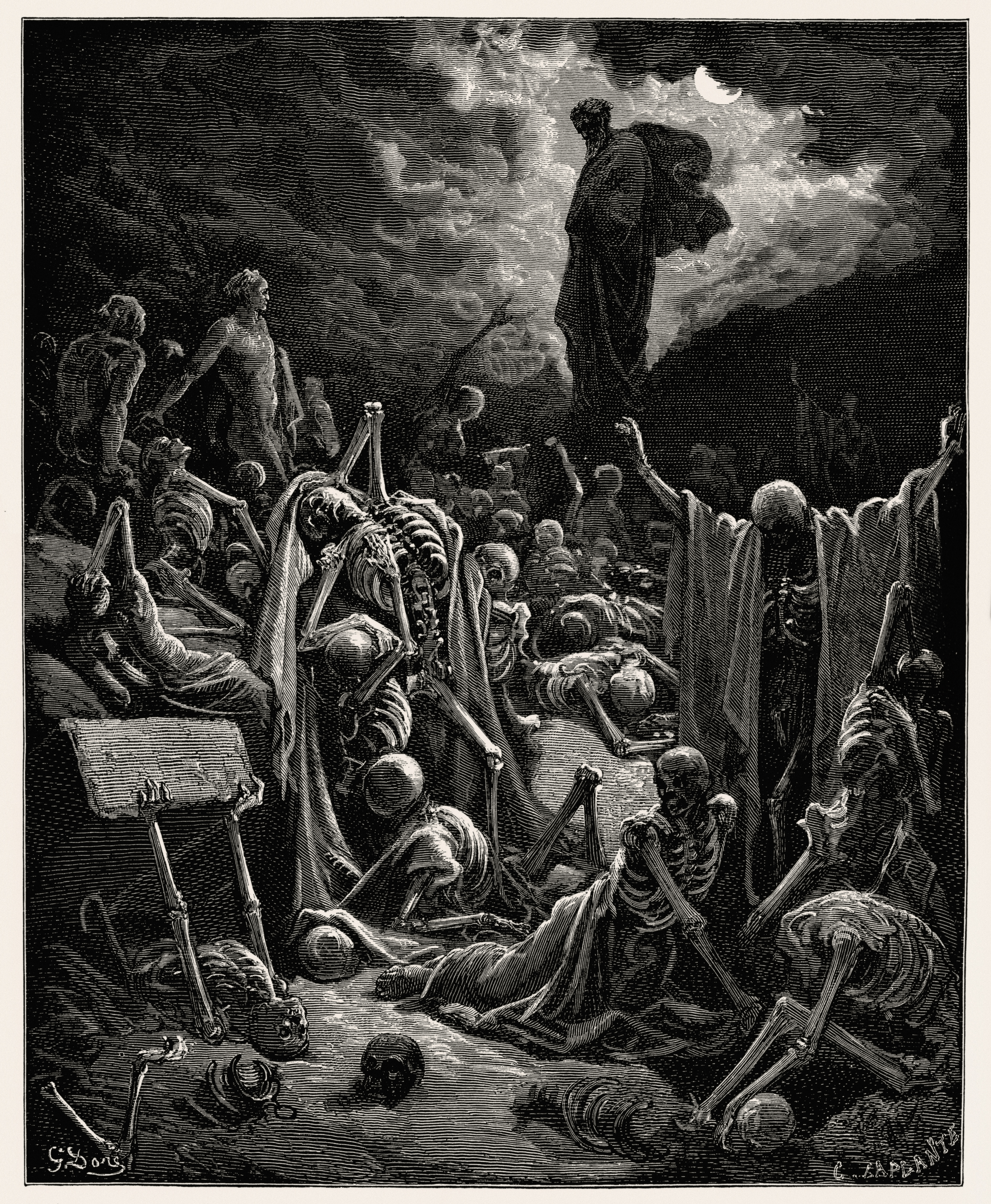 Scan of a Gustave Doré engraving "The Vision of The Valley of The Dry Bones" - 1866